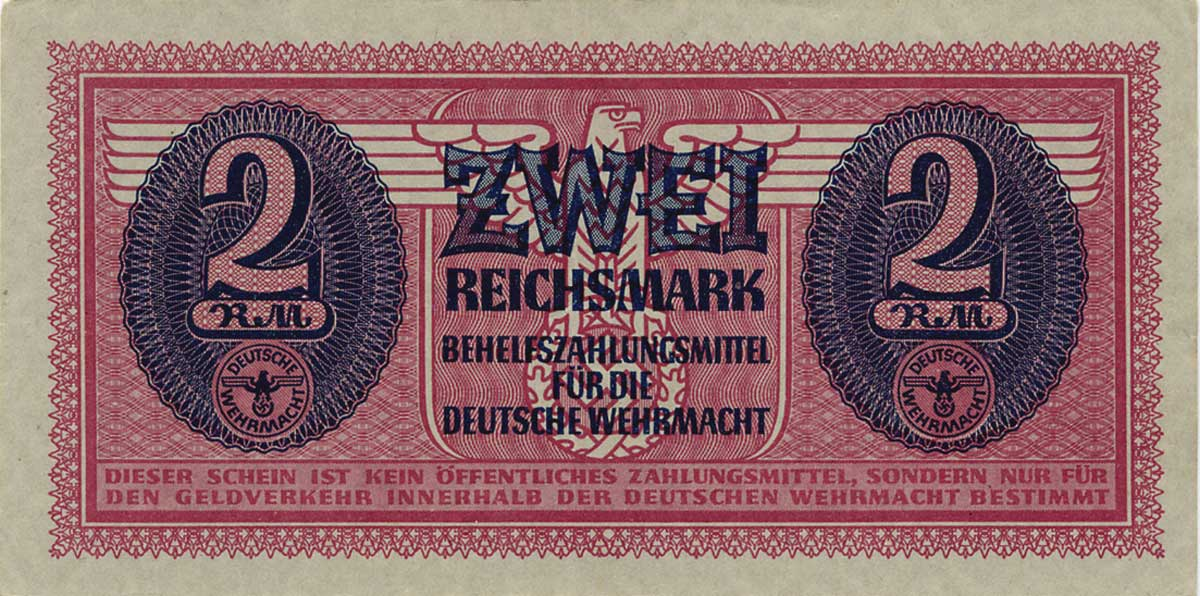 Billet de 2 Reichsmark imprimé en 1942